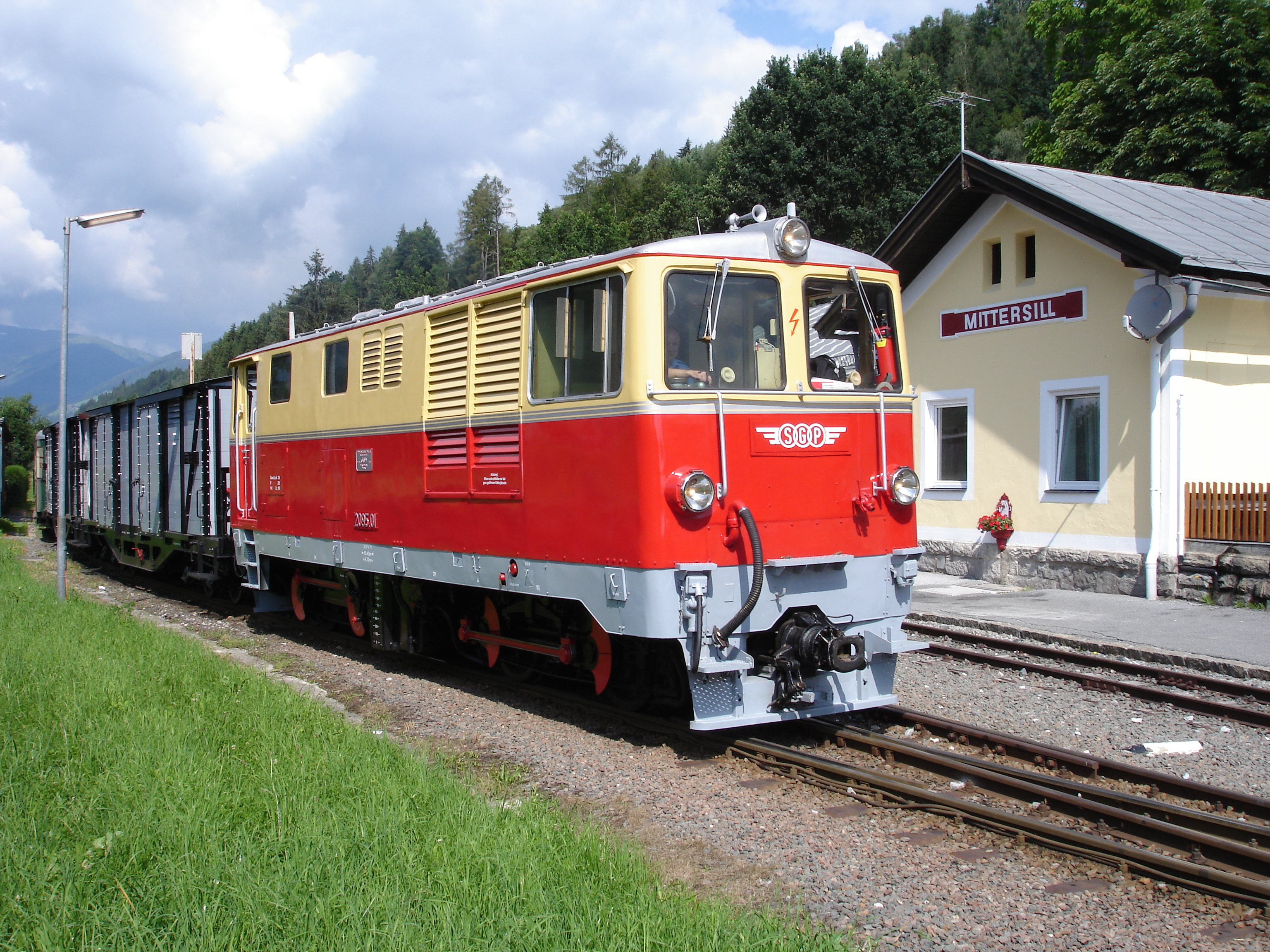 Diesel locomotive 2095.01 in Mittersill, Austria